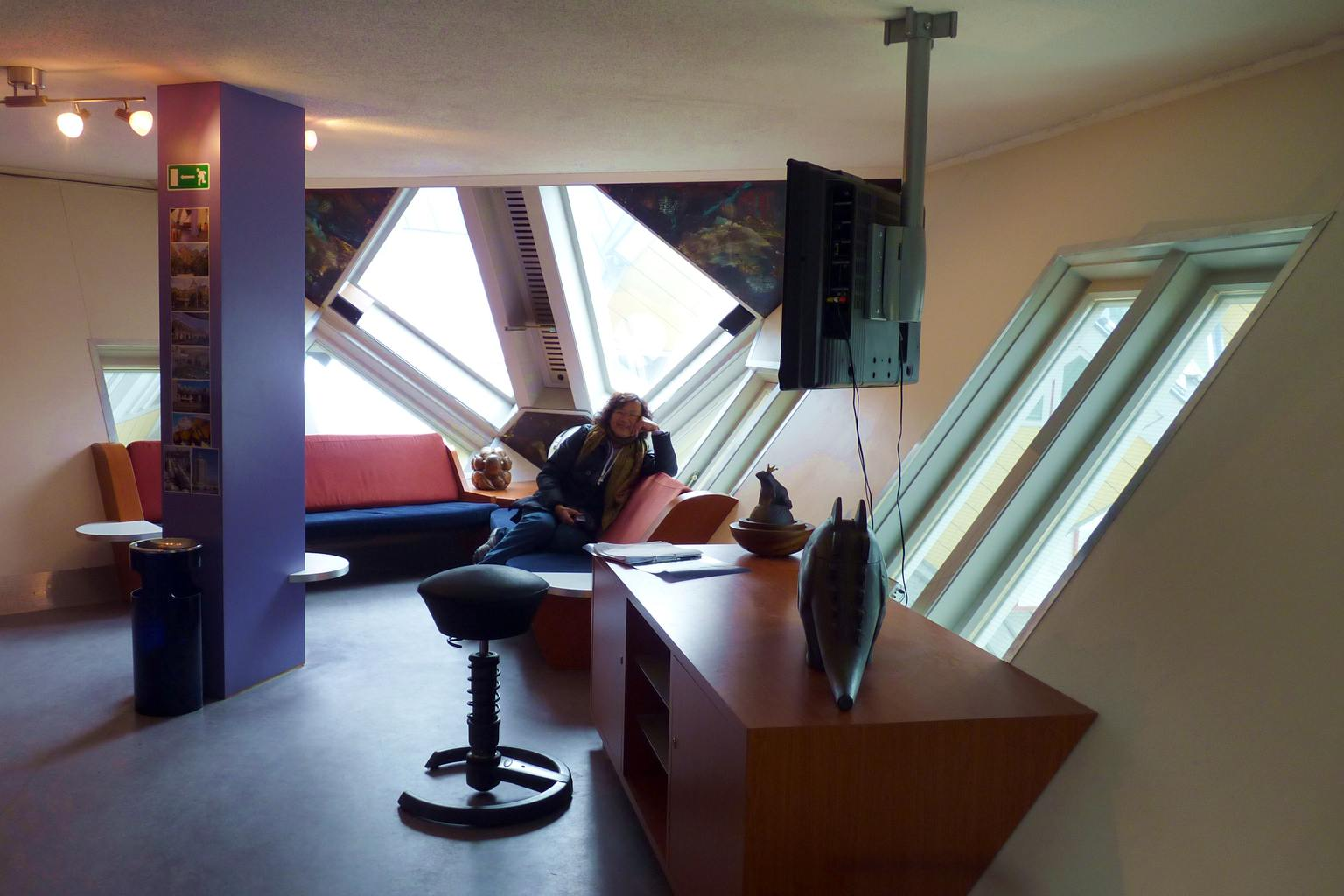 Living room of a Cube House in Rotterdam, The Netherlands.